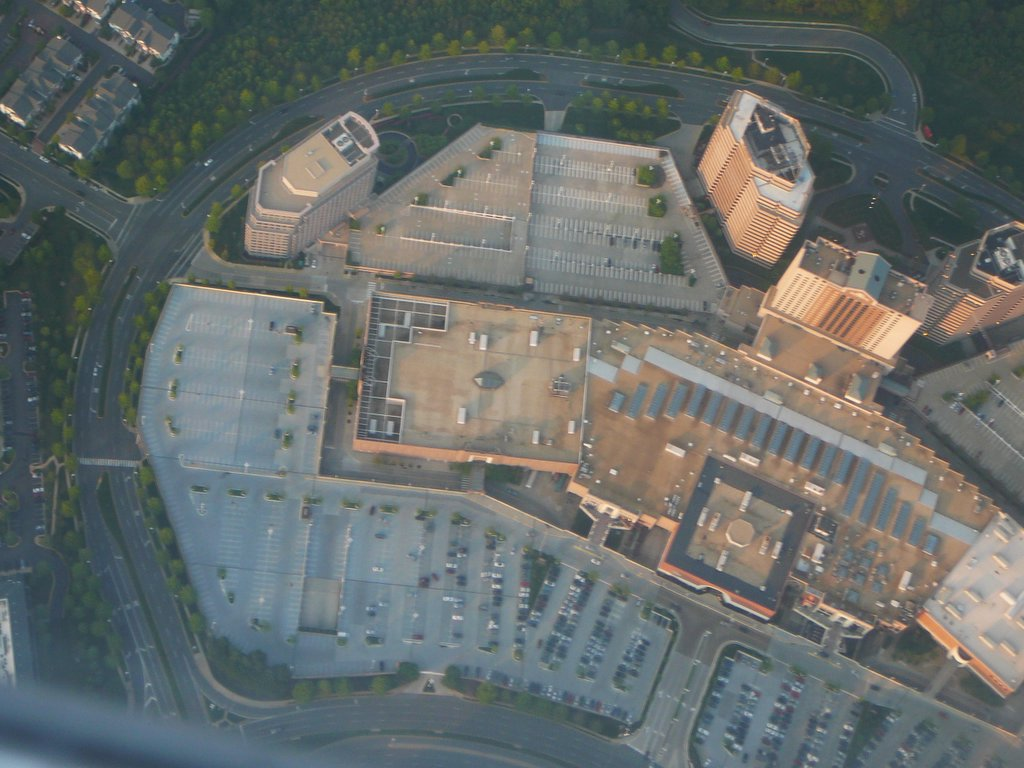 Tysons II